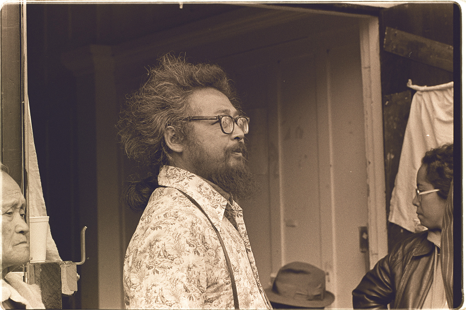 Filipino poet Al Robles in San Francisco's Manilatown on August 4, 1977. Photo by Nancy Wong, San Francisco, California